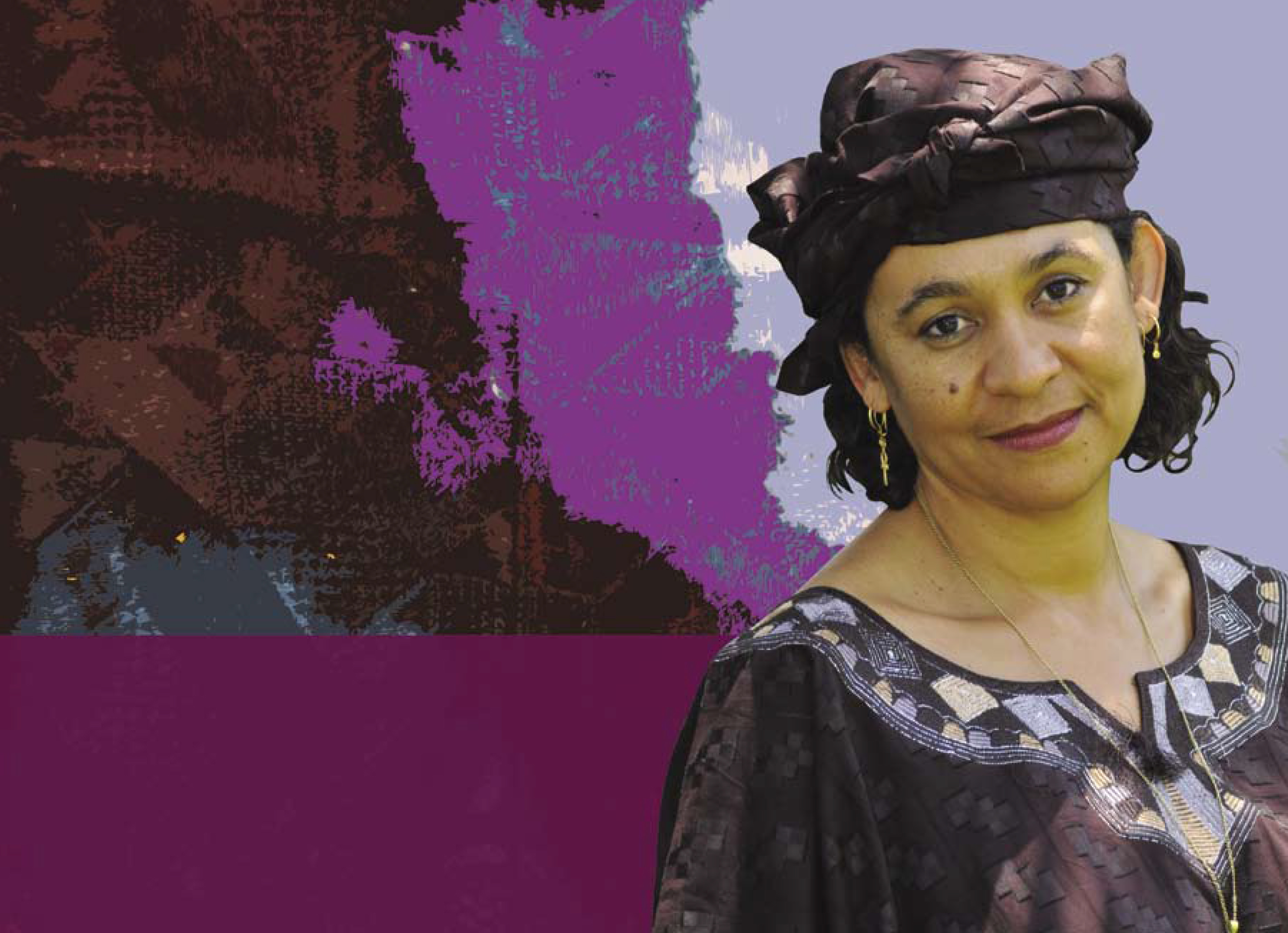 Voice, Power and Soul - Portraits of African Feminists